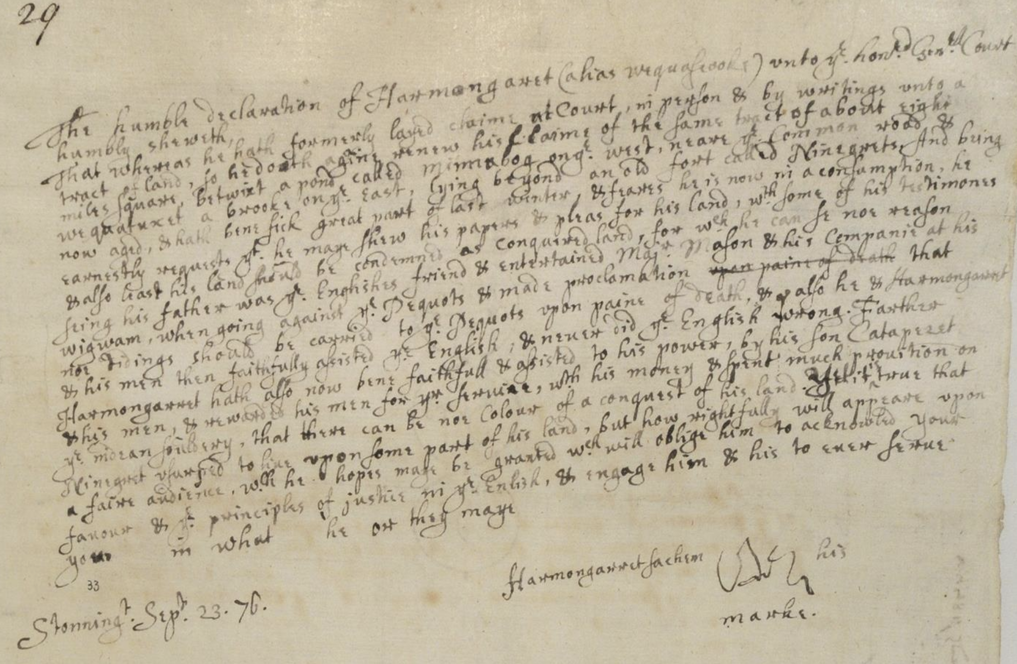 The declaration of Harman Garret unto the honored General Court , Harman Garrett’s petition, 1676 to the Massachusetts General Court, October 1676